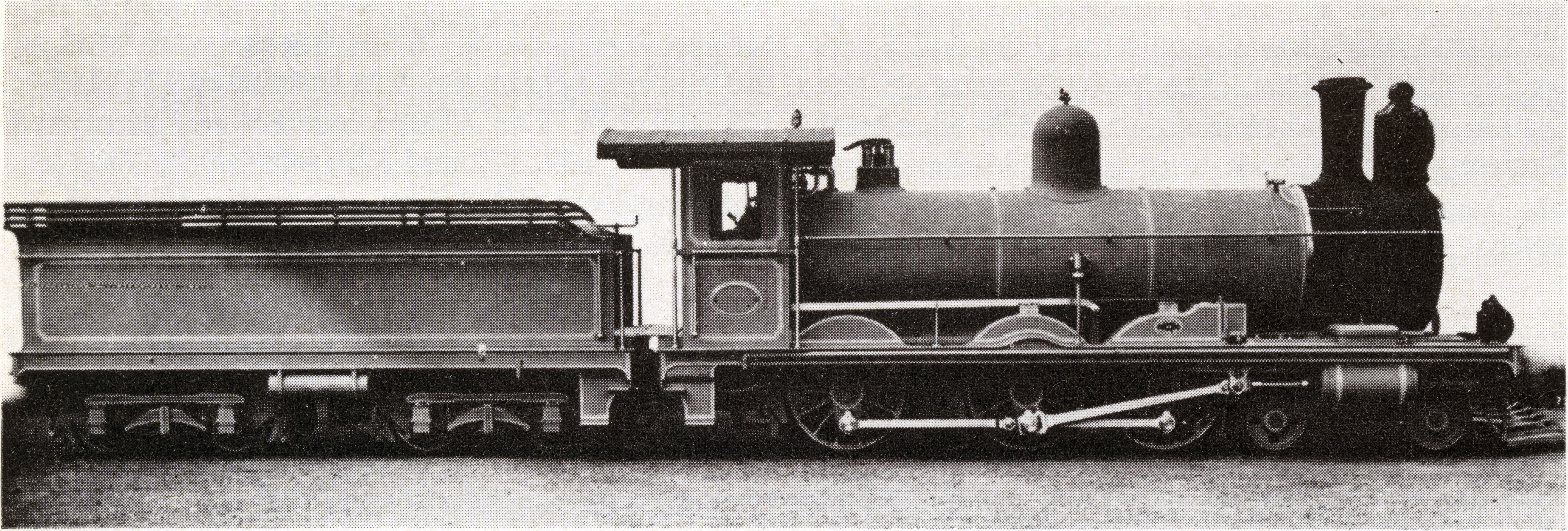 Ex Cape Government Railways Class 6 (4-6-0) South African Railways Class 6B (4-6-0)